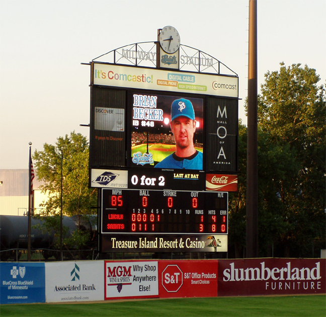 Summary The scoreboard at Midway Stadium 2006